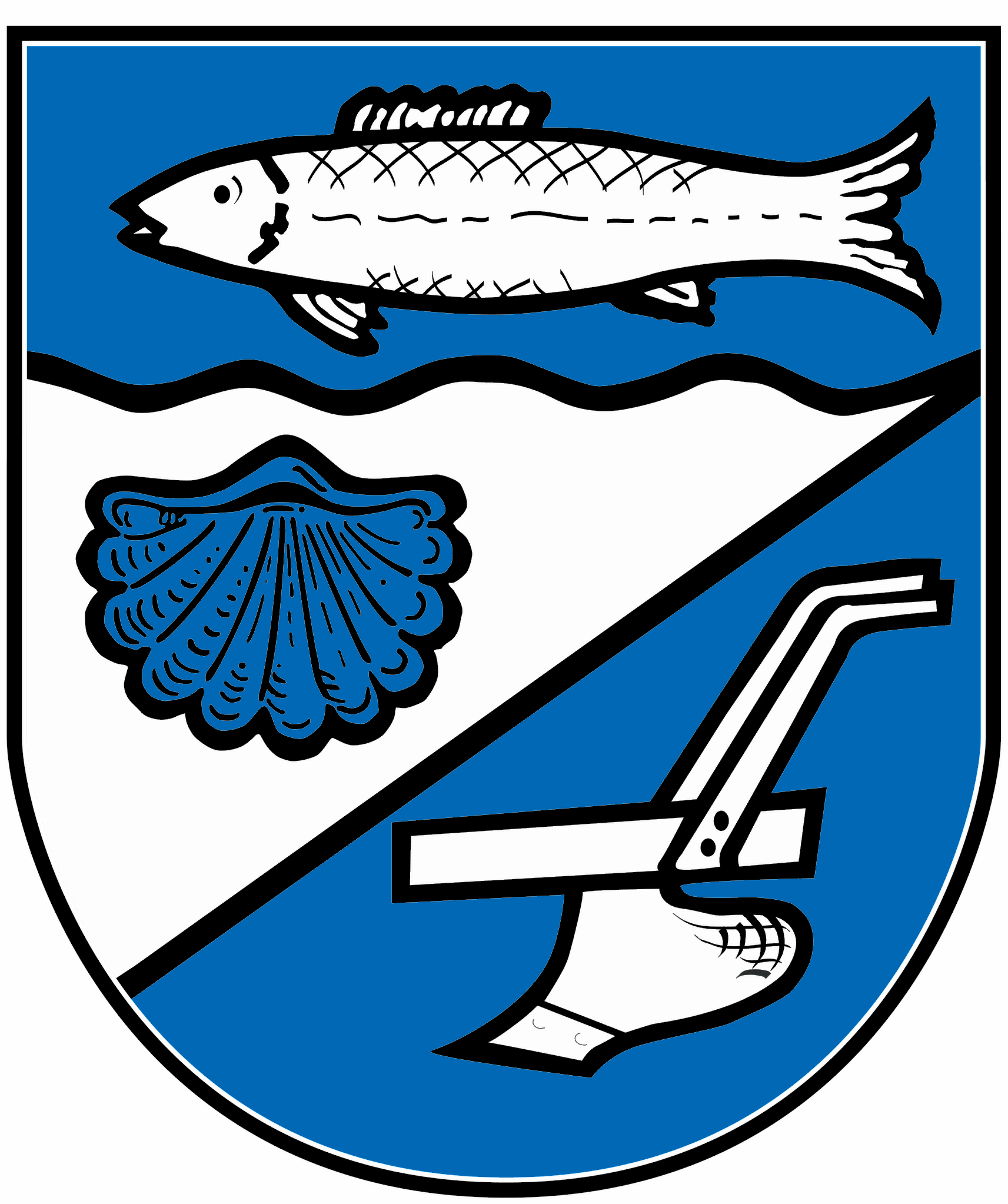 Coat of arms of Fisch